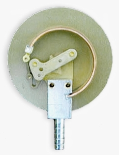 Overview of pressure-vacuum gauge mechanical parts (back view) Source: english wikipedia, original upload 8 April 2004 by Leonard G. Image:WPPressGaugeMech.jpg ==